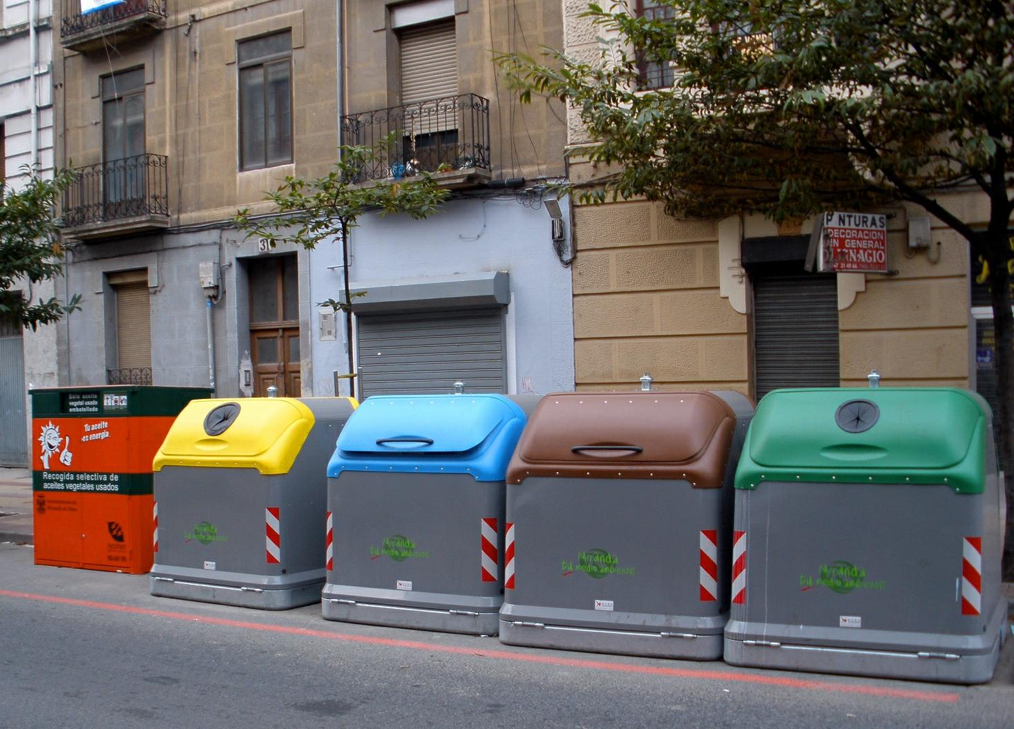 Contenedores para el reciclado de residuos en la c/Vitoria de Miranda de Ebro, provincia de Burgos (Castilla y León, España). De izq. a der: contenedor naranja, para aceites vegetales; contenedor amarillo, para envases metálicos, plásticos y tetra-briks; contenedor azul, para papel y cartón; contenedor marrón, para desechos orgánicos; contenedor verde, para vidrio y cristal.